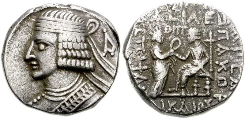 Coin of the Parthian king Pacorus II.